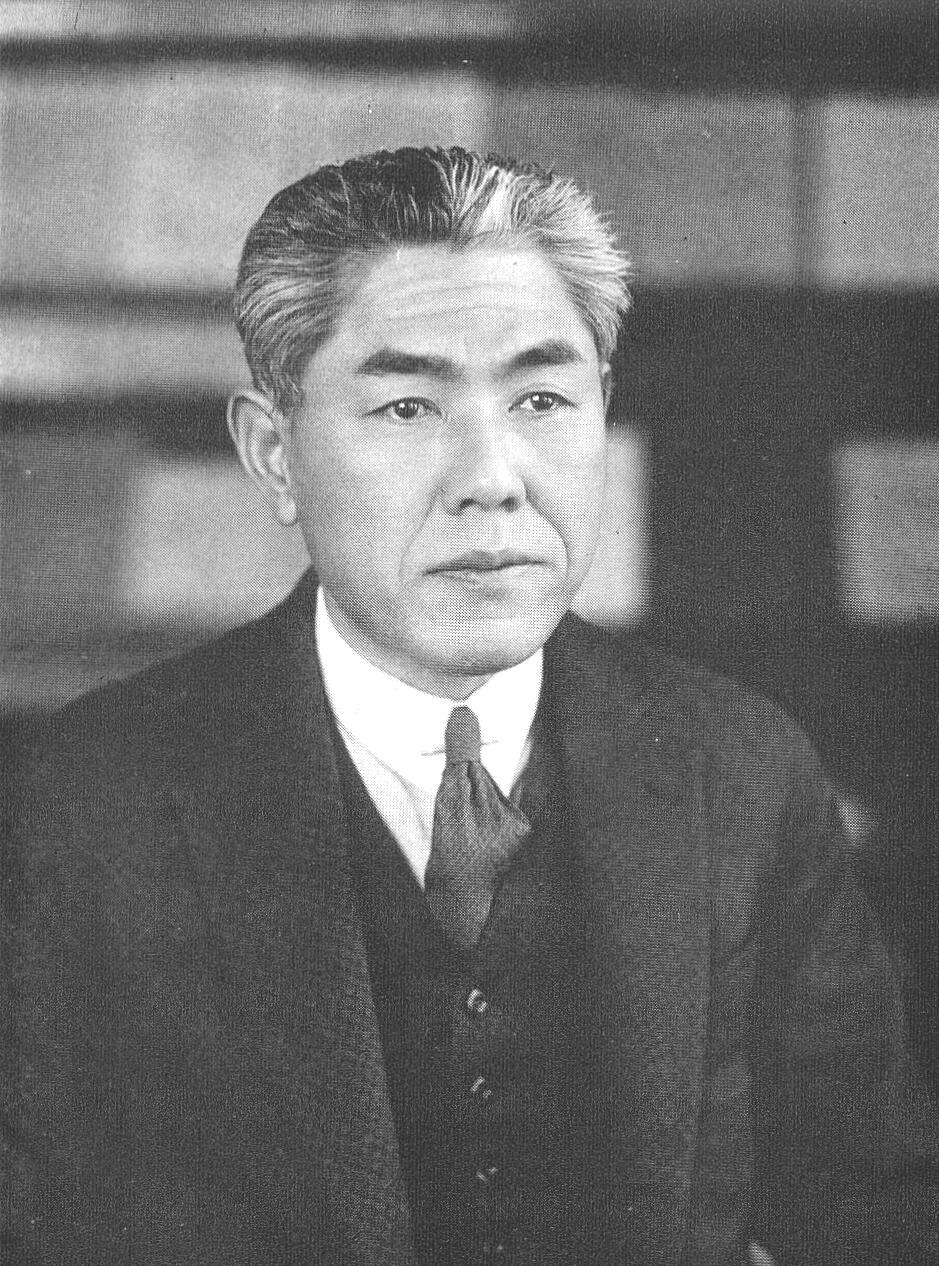 Masao Ohta, Japanese dermatologist. As Mokutaro Kinoshita. he was also poet. He passed 1945.